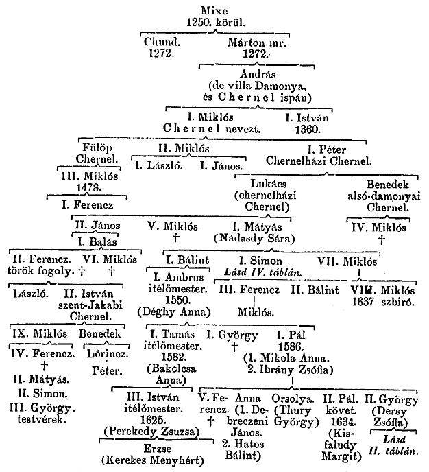 Chernel family tree I.